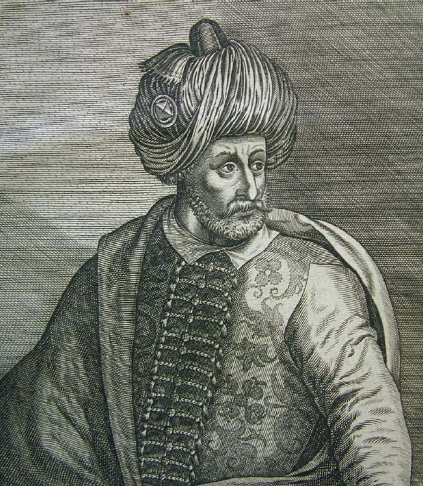 Portrait of Bayezid I, Sultan of the Ottoman Empire (1389-1402).